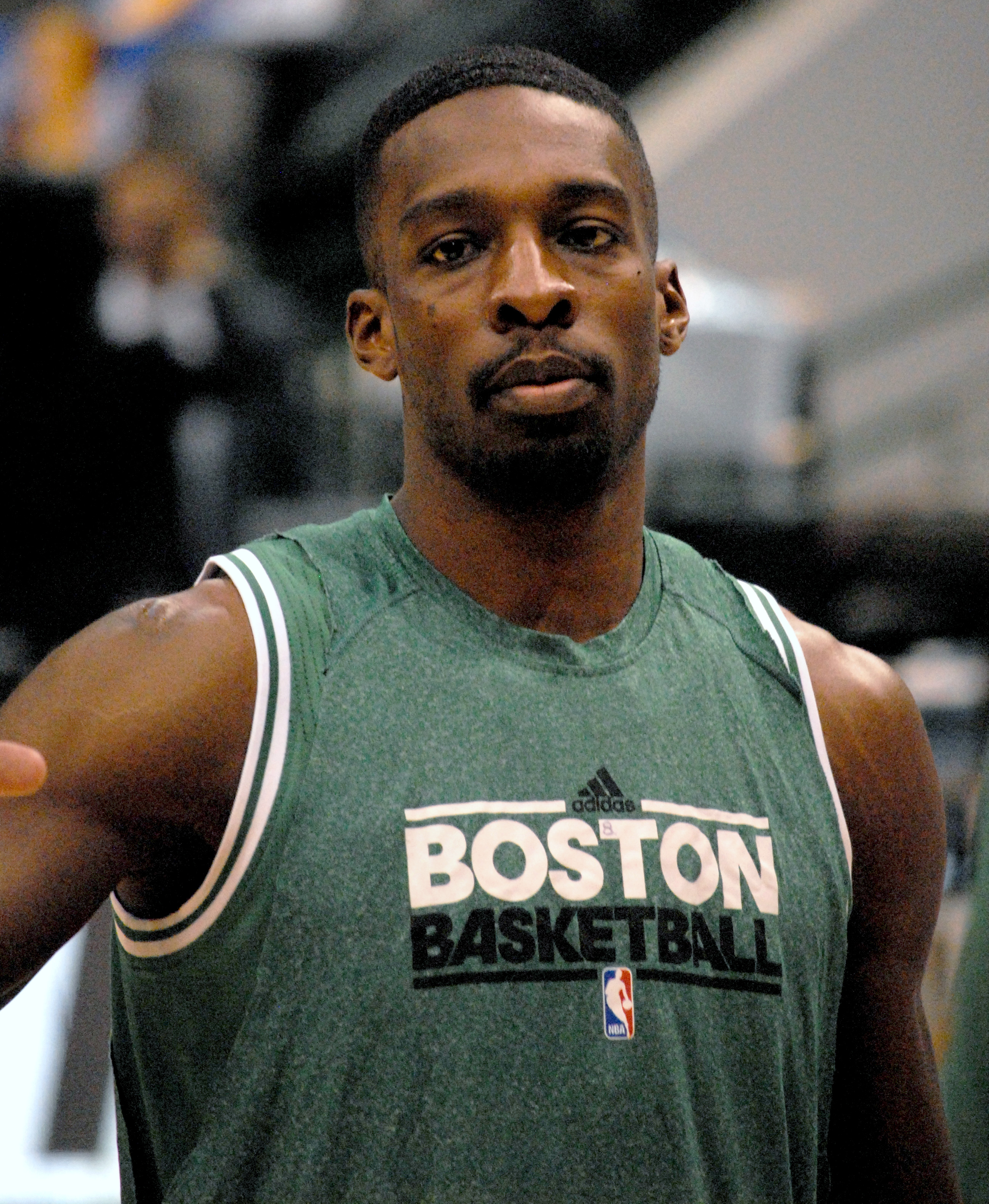 Jeff Green of the Boston Celtics